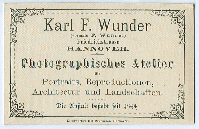 Back side of the CDV